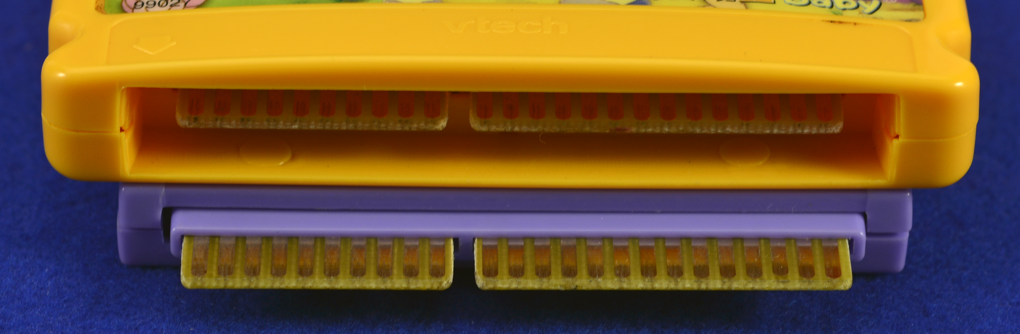 Comparison of the pins of the V.Smile and V.Smile Baby cartridges, showing both are the same with a different plastic shell.